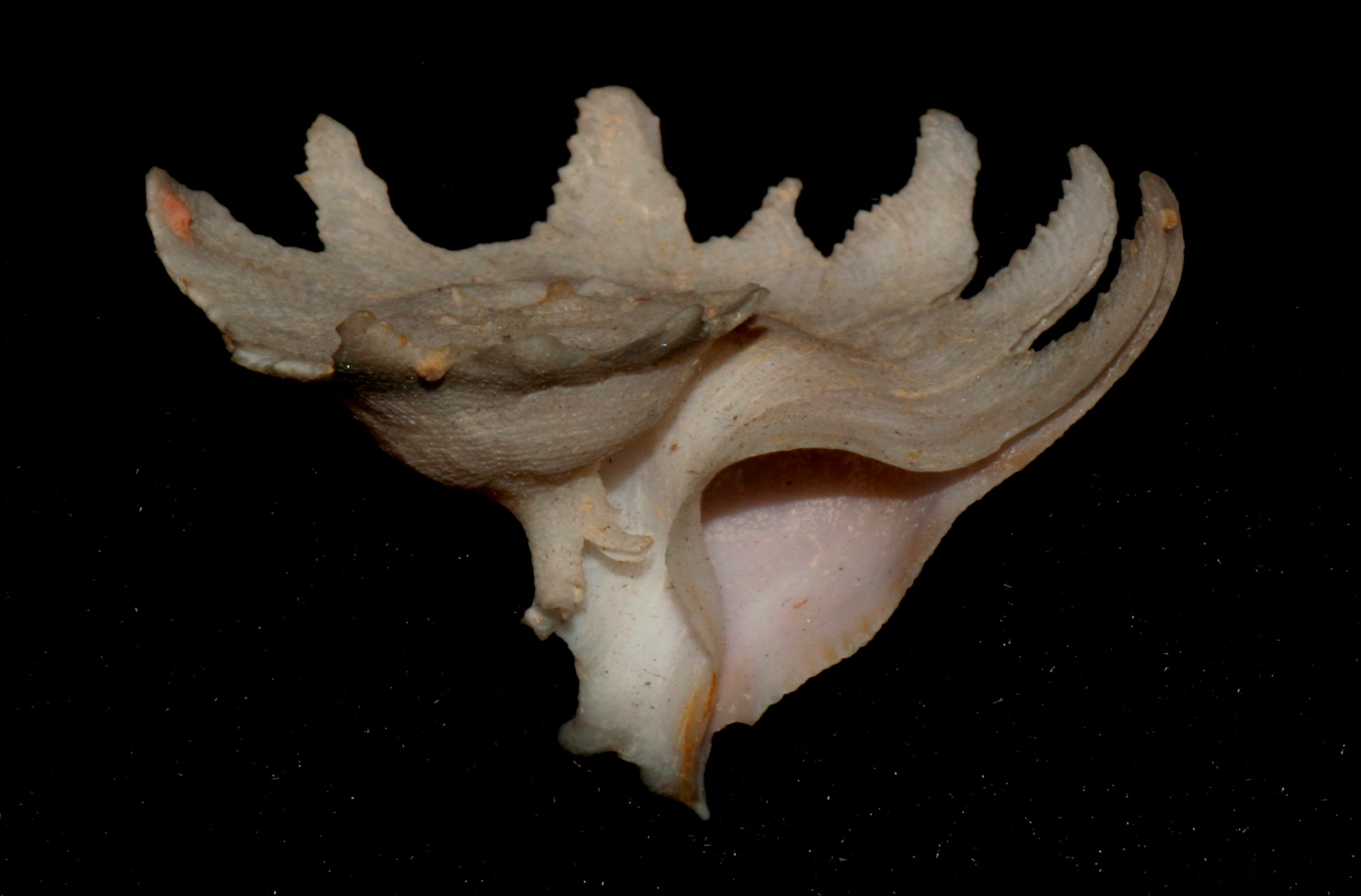 Muricidae: Latiaxis pilsbri Hirase, 1908